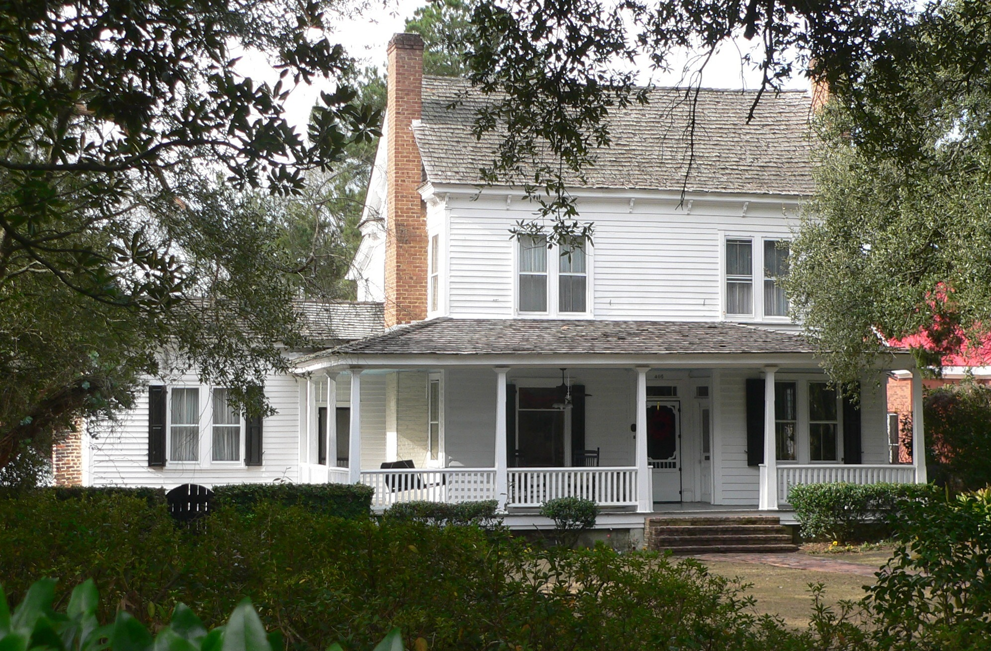 M. F. Heller house, located at 405 Academy Street in Kingstree, South Carolina. View is from the front, from Academy St.